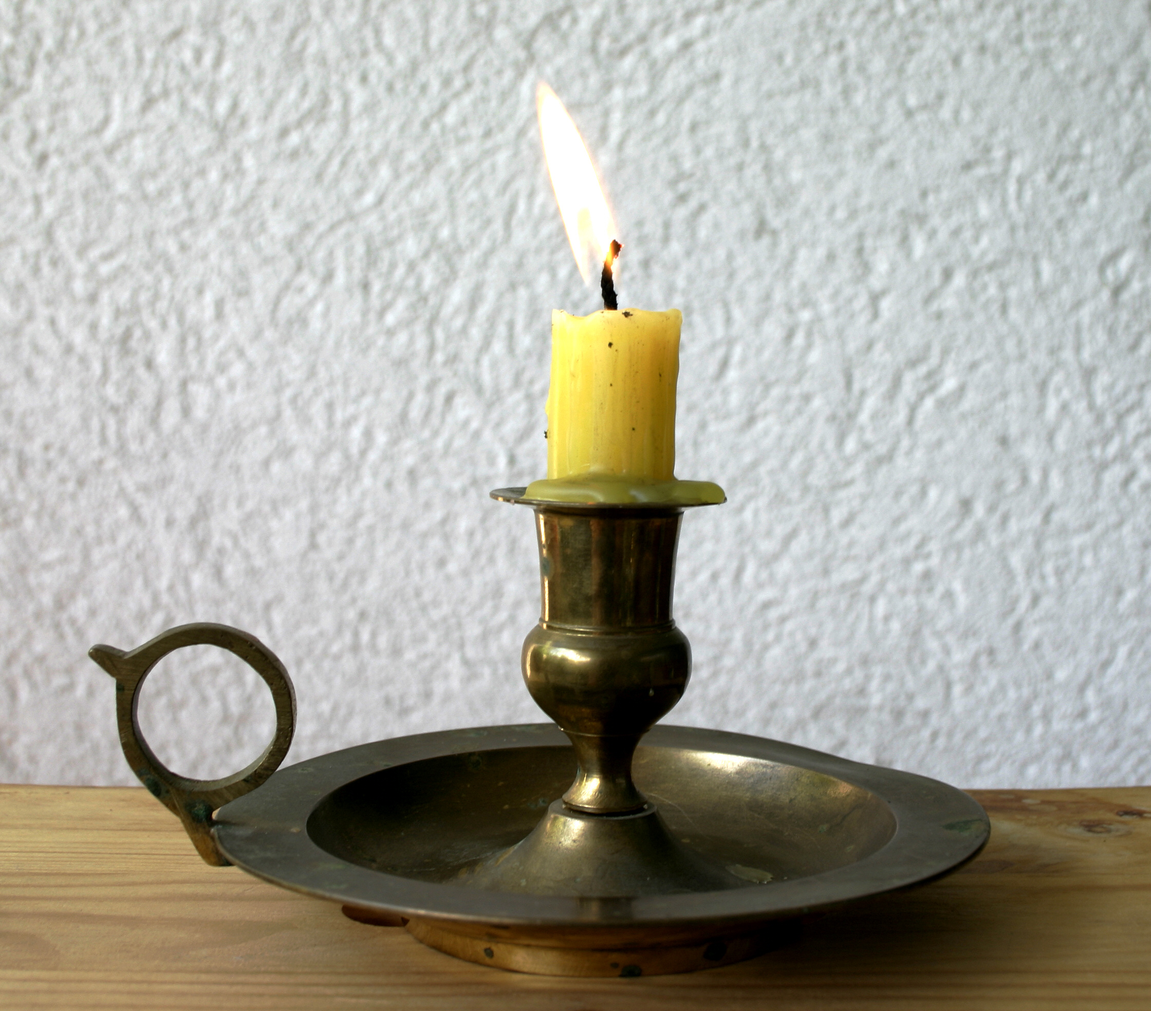 Bugia candlestick, portable candlestick